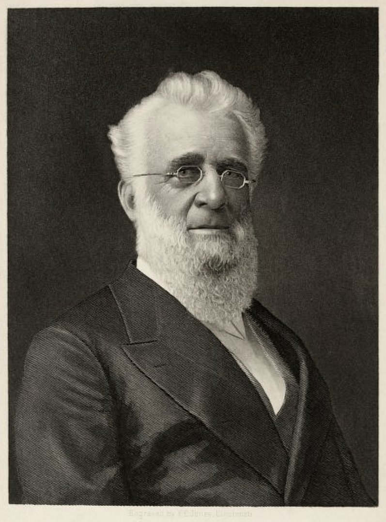 Richard S. Rust was a Methodist preacher, abolitionist, educator, writer, lecturer, secretary of the Freedmen's Bureau, and founder of the Freedmen's Aid Society and multiple colleges and educational institutions.